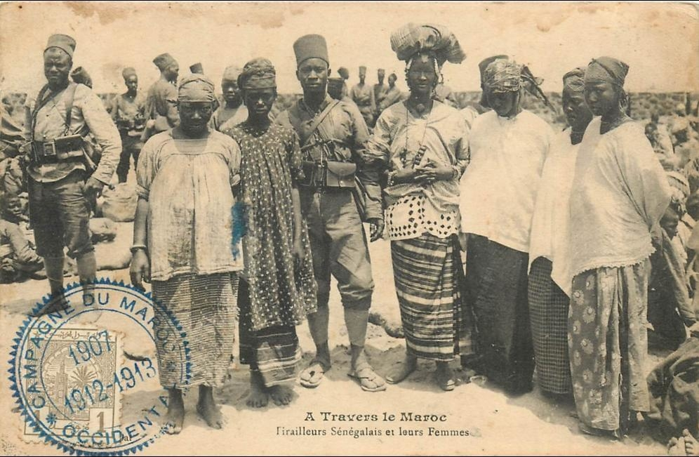 Senegalese fighters with their wives in the military camp